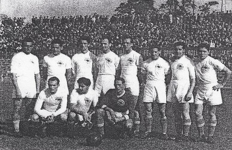 Dorogian on first class match in Ujpest